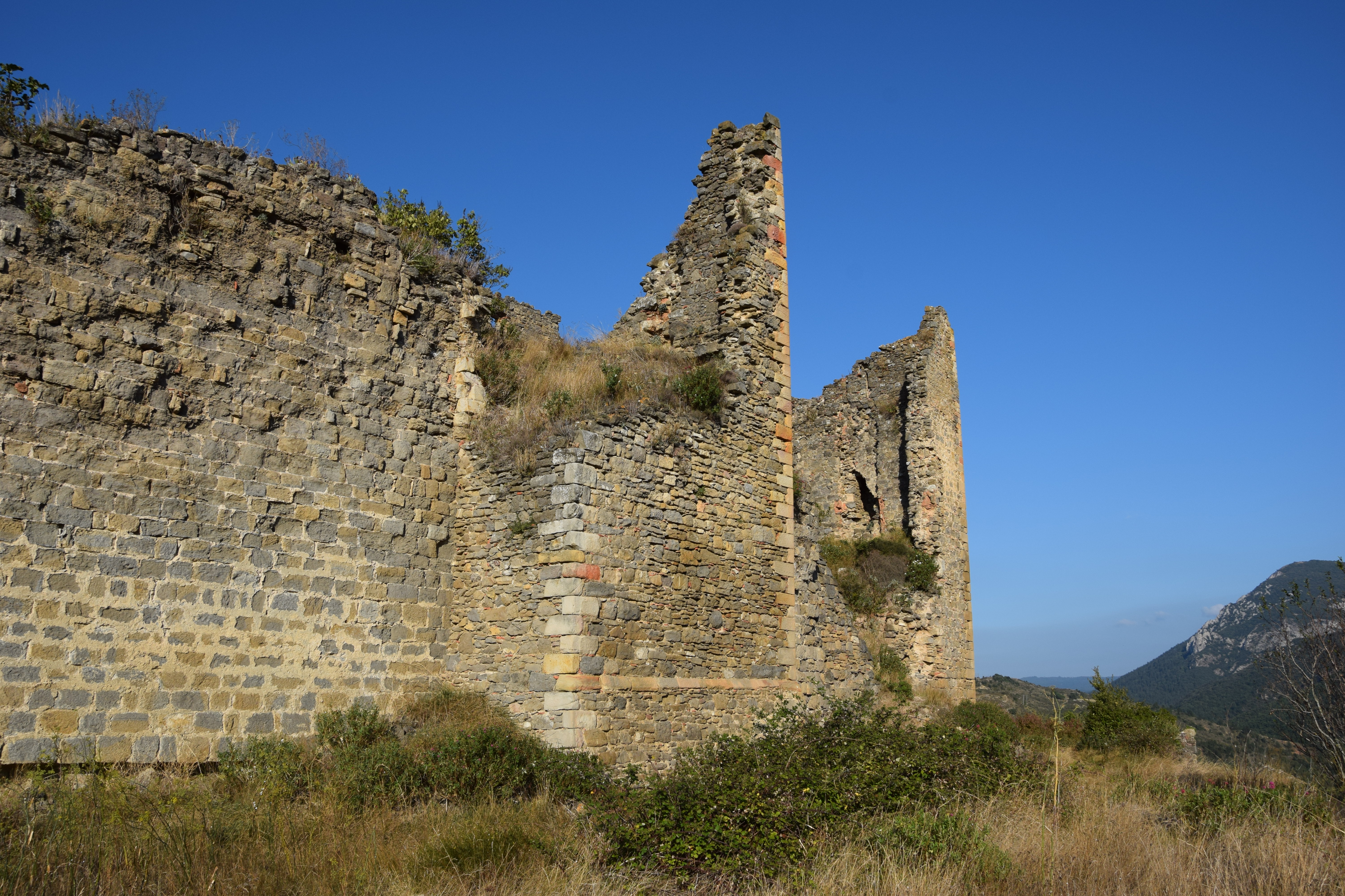 Castle of Coustaussa